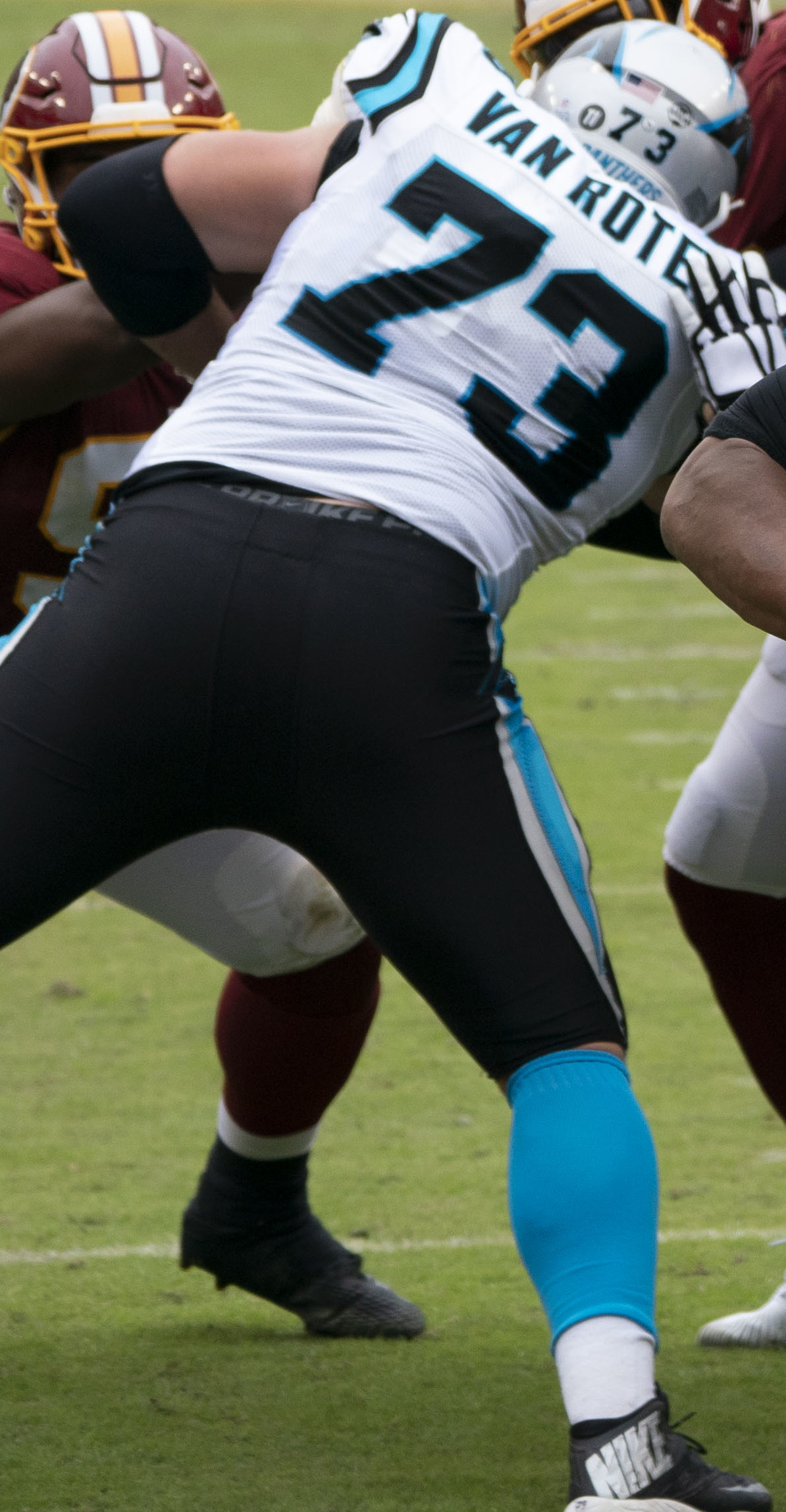 Panthers at Redskins 10/14/18